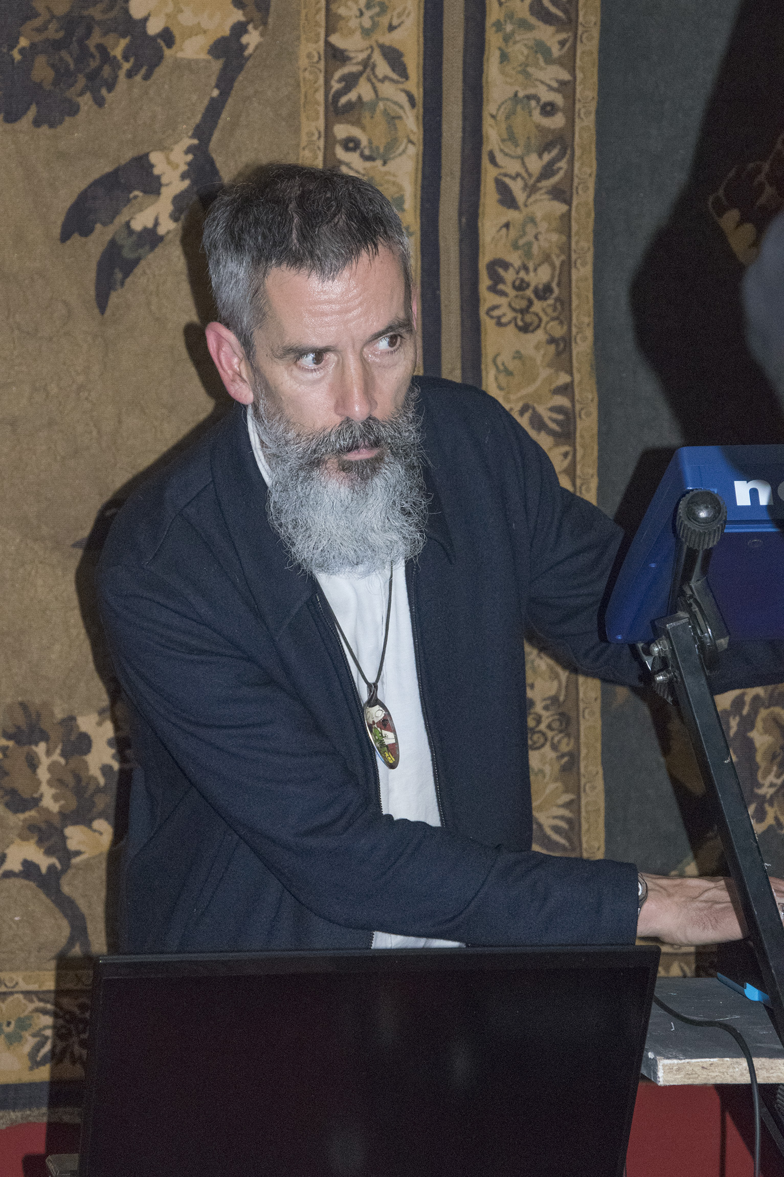 English composer Christopher James Chaplin performing a concert on the 8th of October 2017 in Museum Gugging, Maria Gugging, Austria